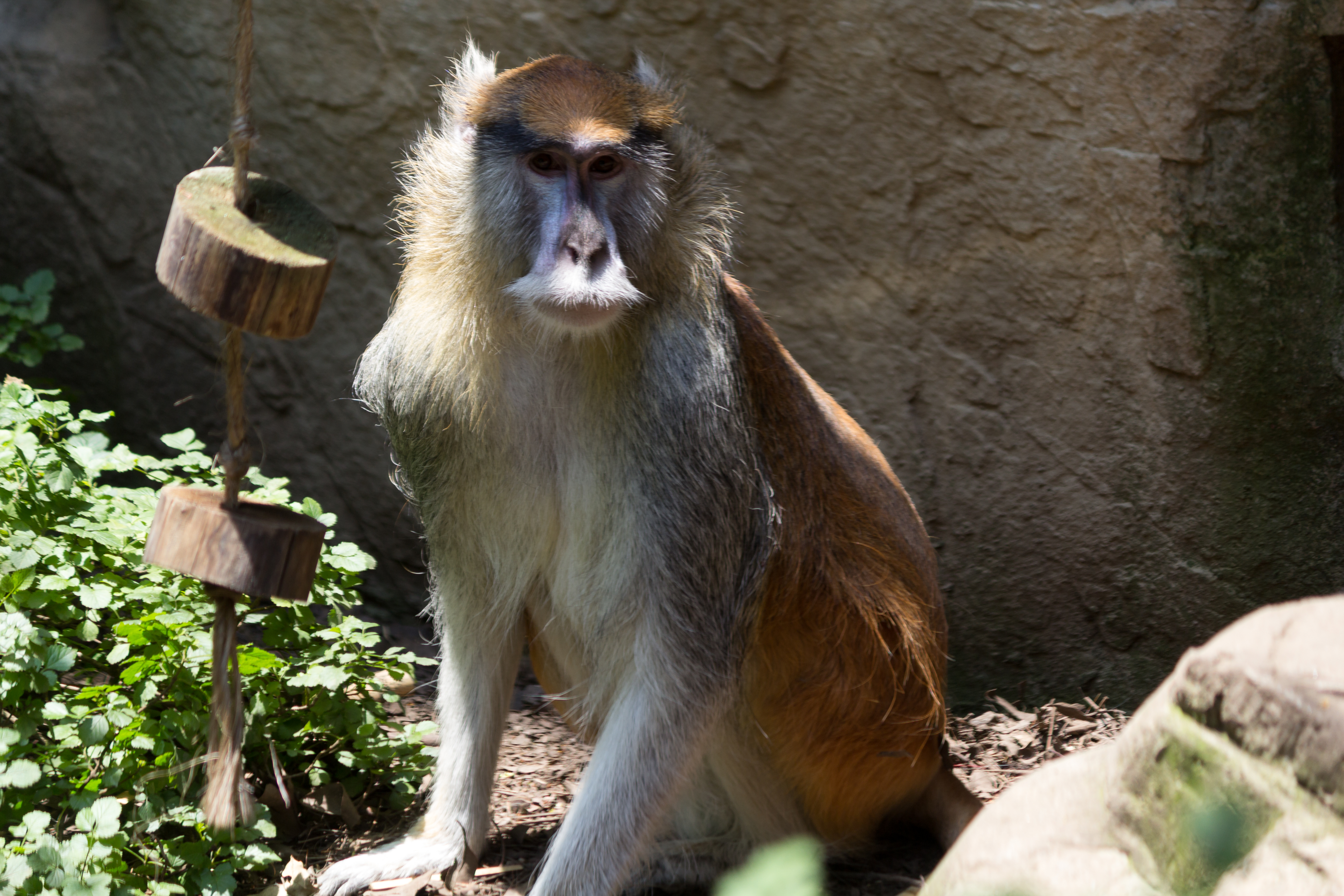 Patas monkey (Erythrocebus patas) in Chapultepec Zoo.